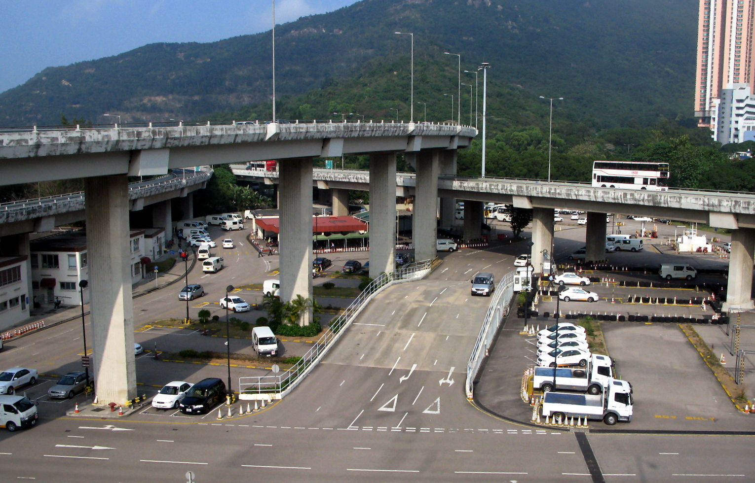 HK School of Motoring Siu Lek Yuen 香港駕駛學院小瀝源安全駕駛中心